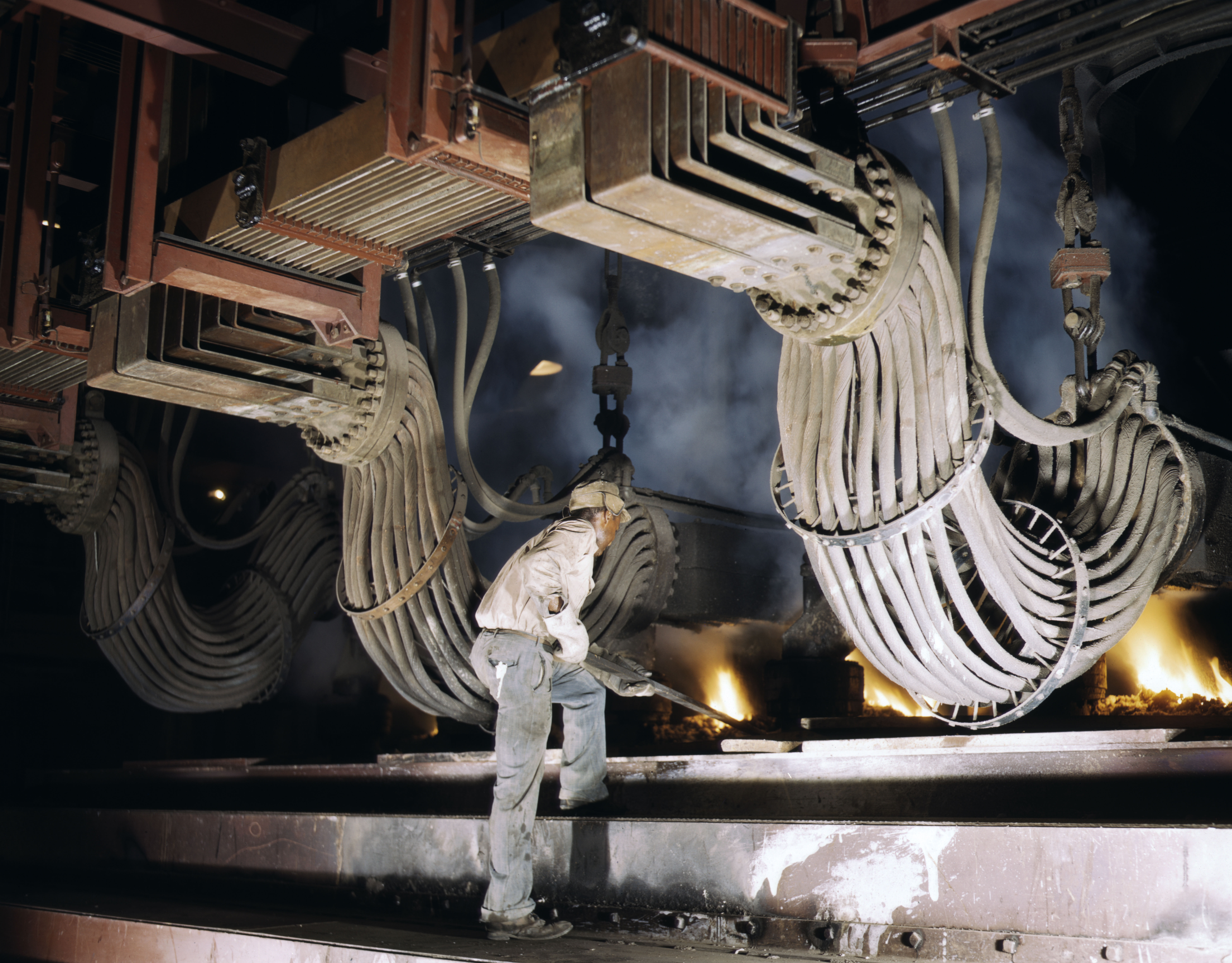 Large electric phosphate smelting furnace used in the making of elemental phosphorus in a TVA chemical plant in the Muscle Shoals area, Alabama.